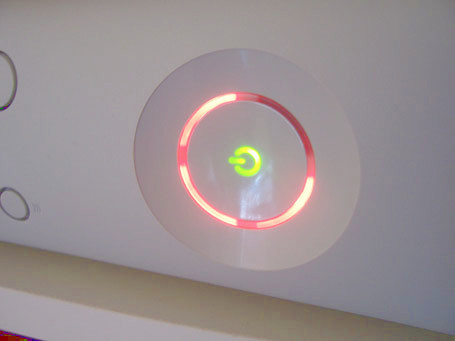 An Xbox 360 showing the Ring of Death.